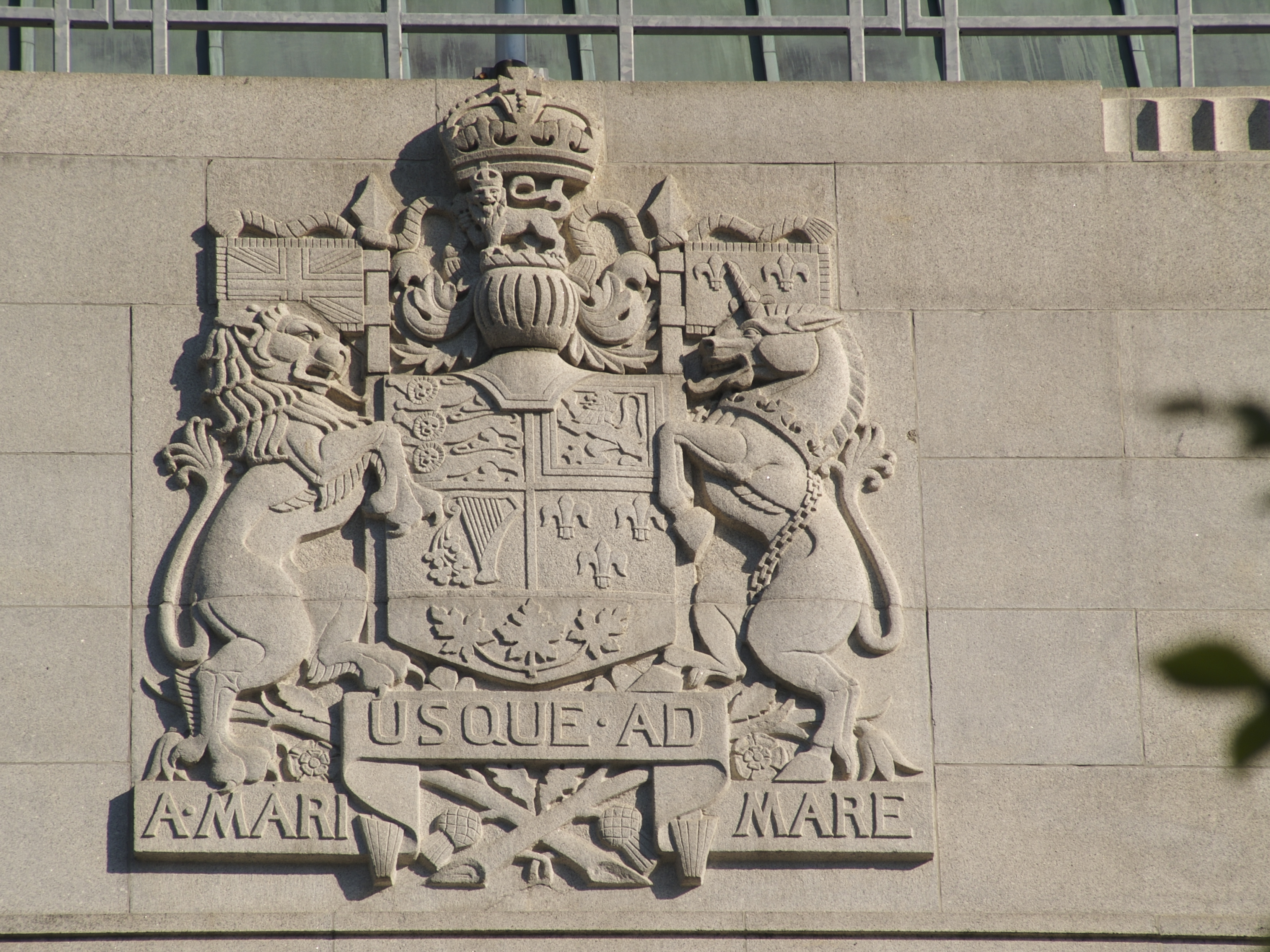 Relief of the coat of arms of Canada on the Bank of Canada Building in Ottawa.